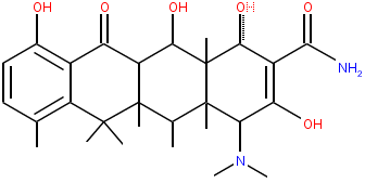 basic structures of the tetracyclines